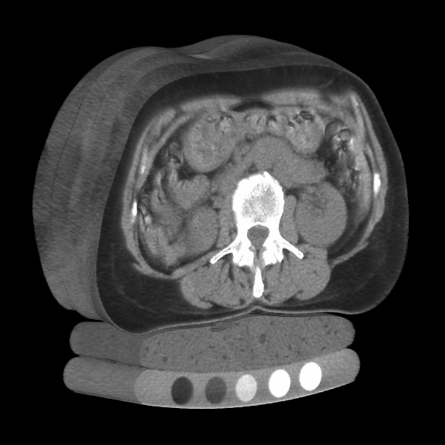 Quantitative computed tomograph showing abdominal cross section showing vertebrae bone density and calibration phantom.